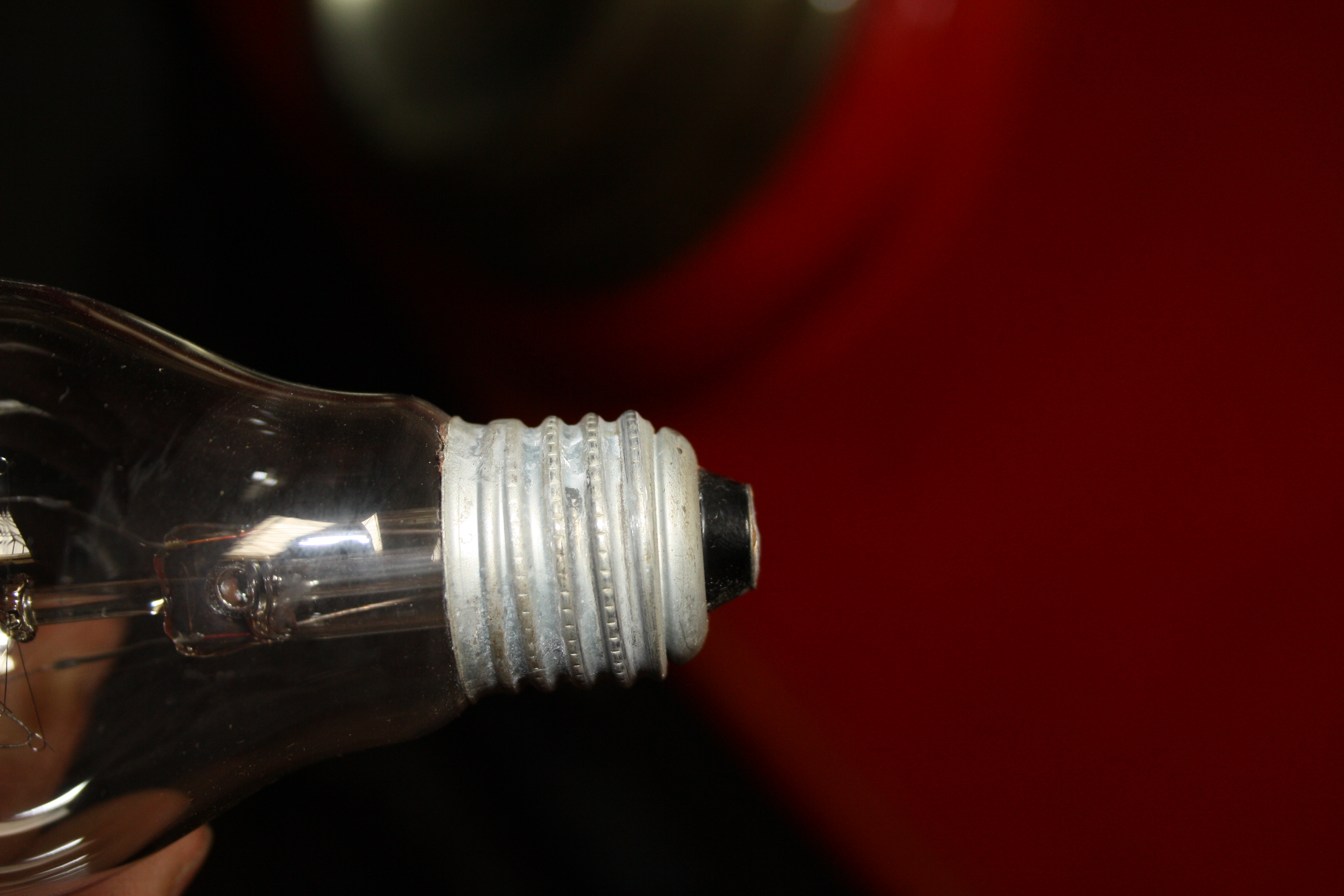 Screw base for tram lamp